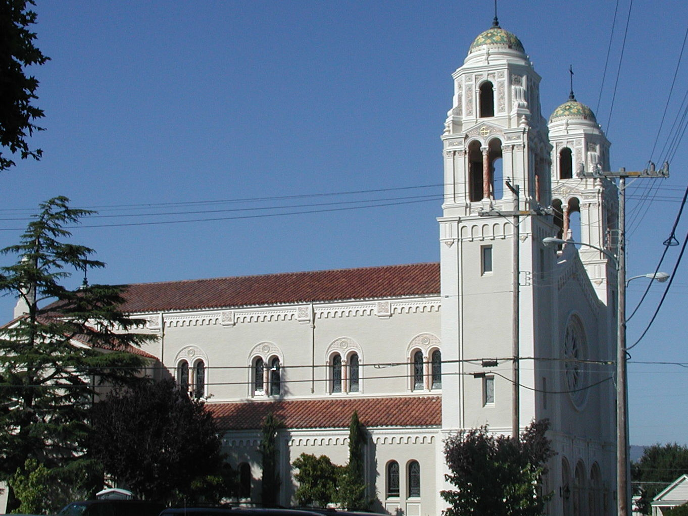 Petaluma, CA, St. Vincent de Paul Catholic Church (